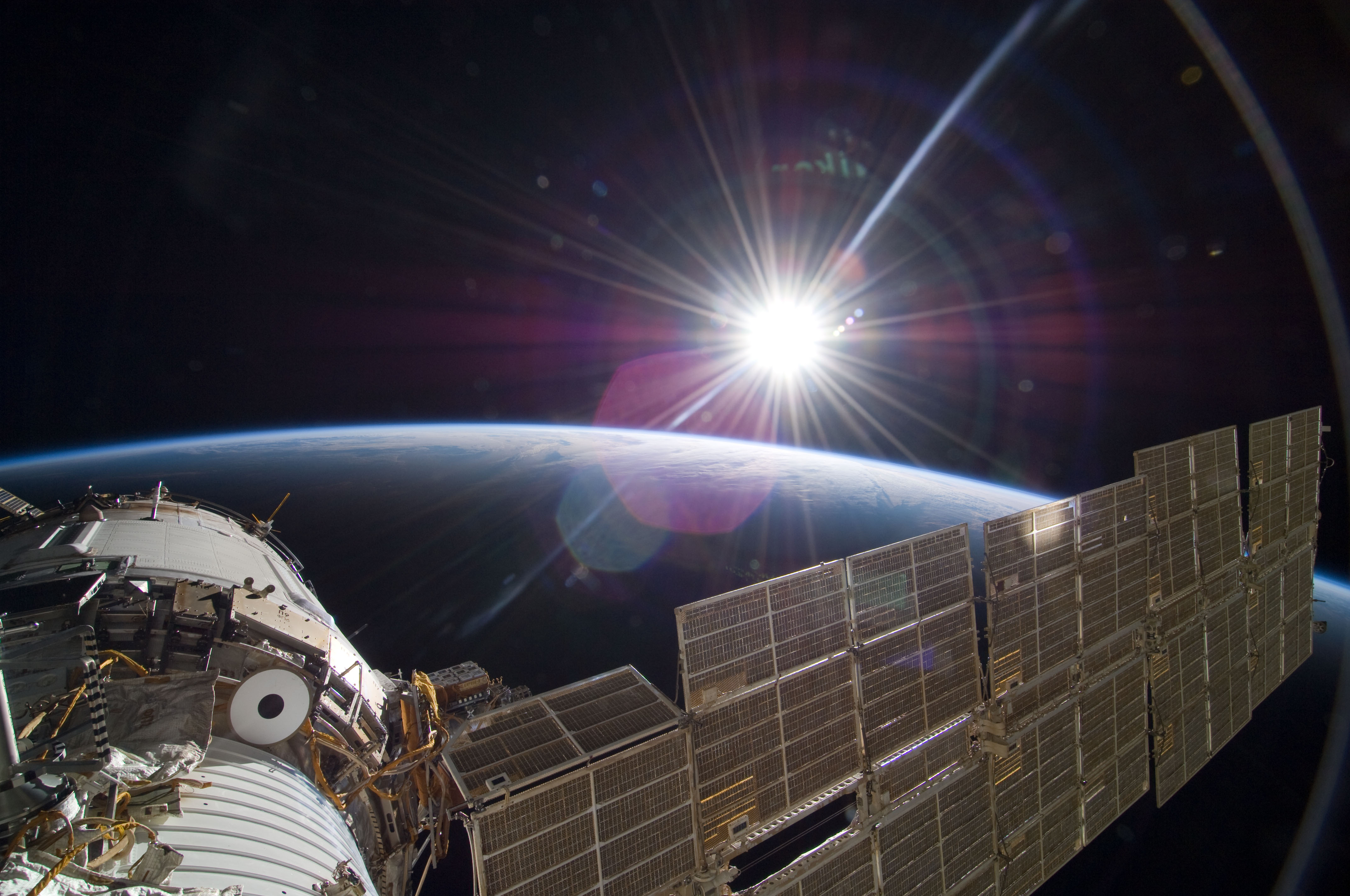 The bright sun greets the International Space Station in this Nov. 22 scene from the Russian section of the orbital outpost, photographed by one of the STS-129 crew members.